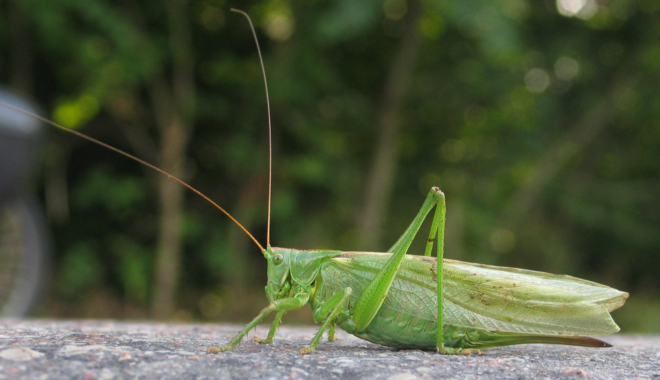 Probably Tettigonia viridissima. Photo taken in Mazury